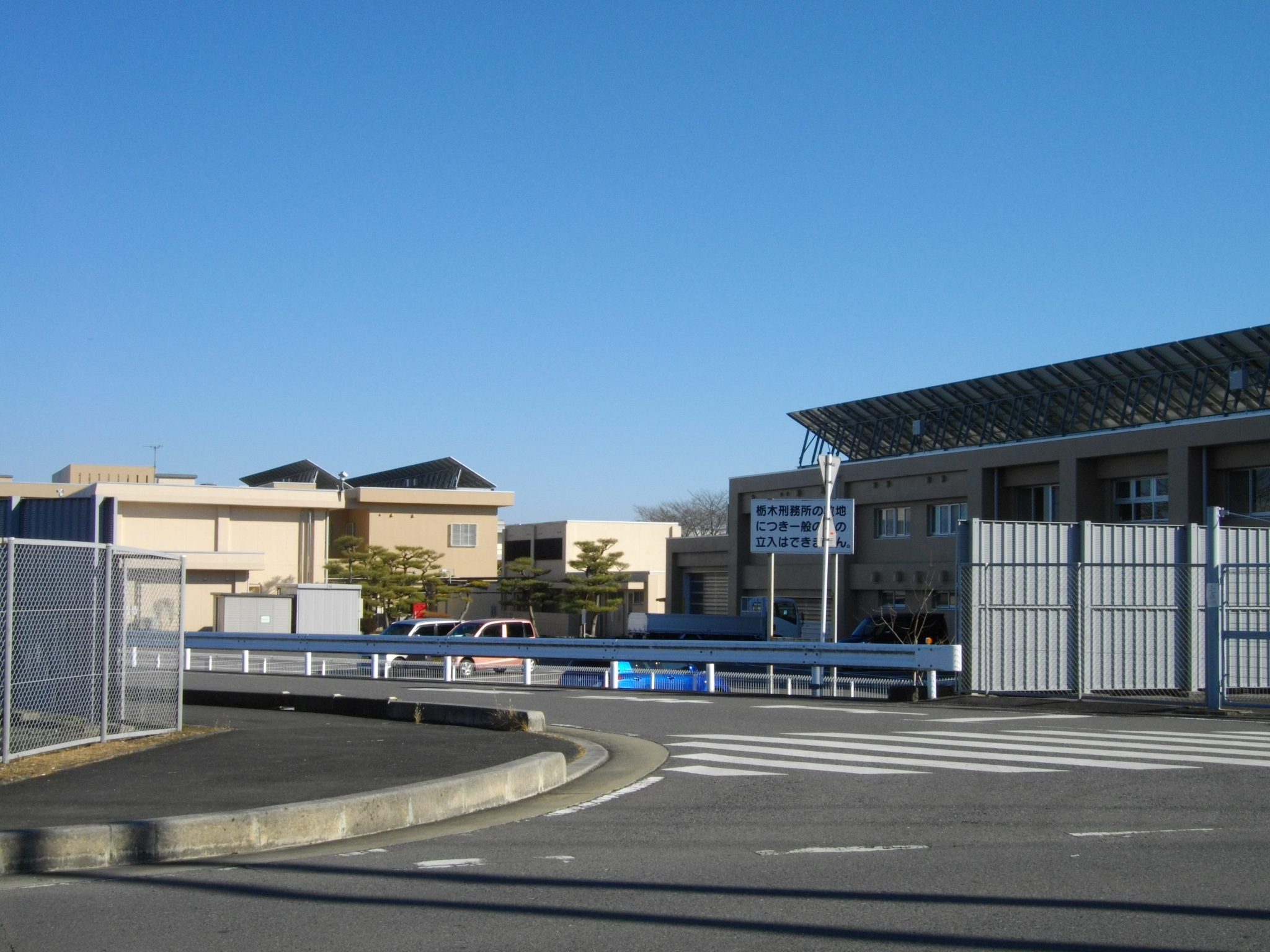 Tochigi Prison